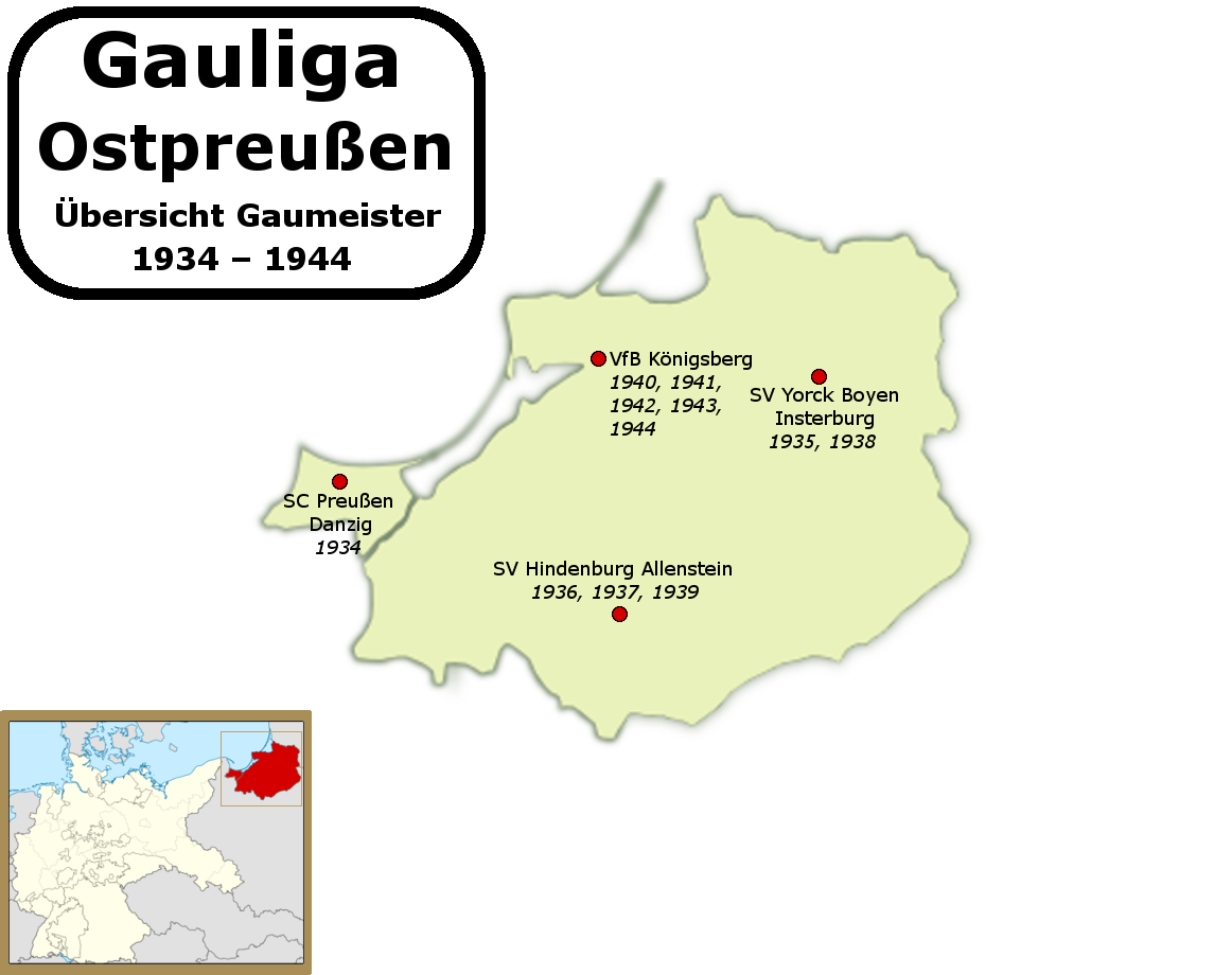 Map of Soccer Champions of Gauliga Ostpreußen